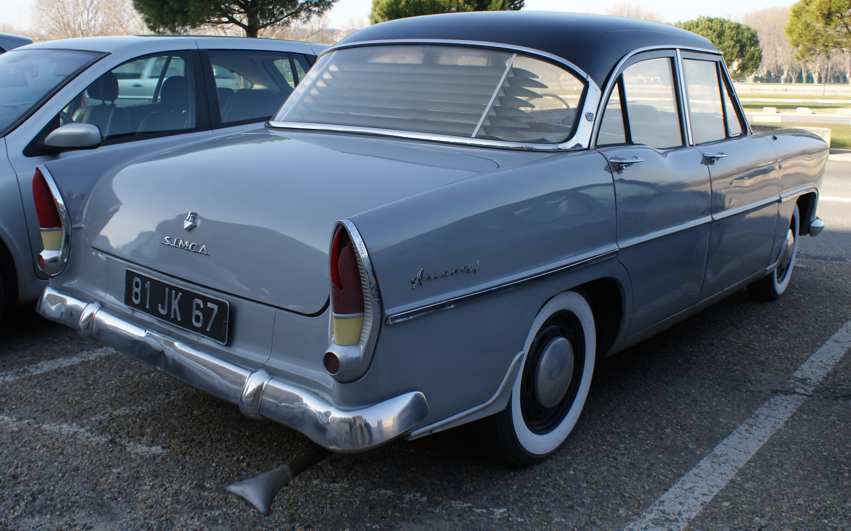 The back of a Simca Ariane photographed in France.